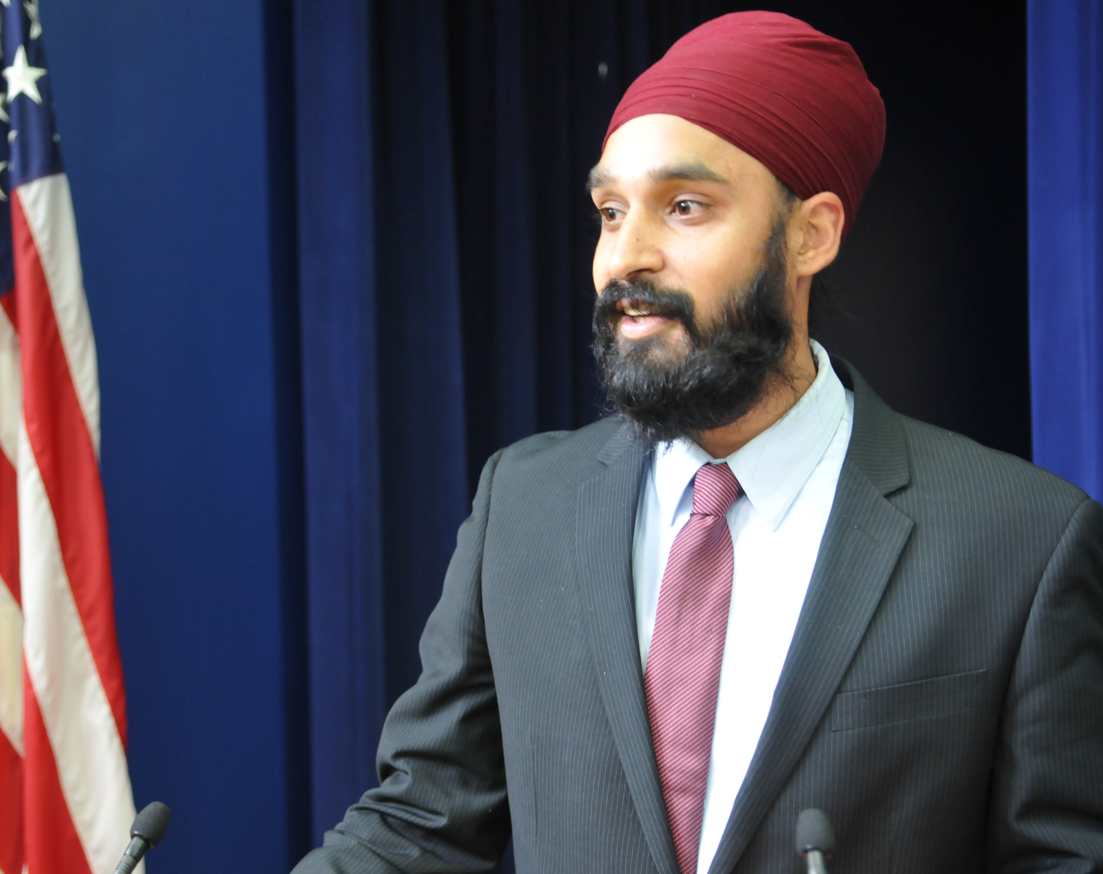 Photo Credit: The Sikh Coalition